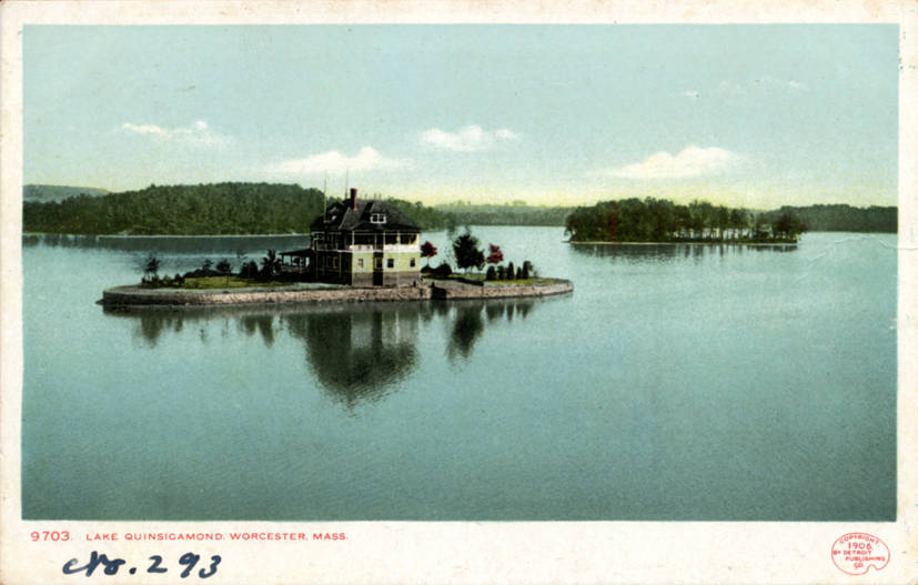 Lake Quinsigamond